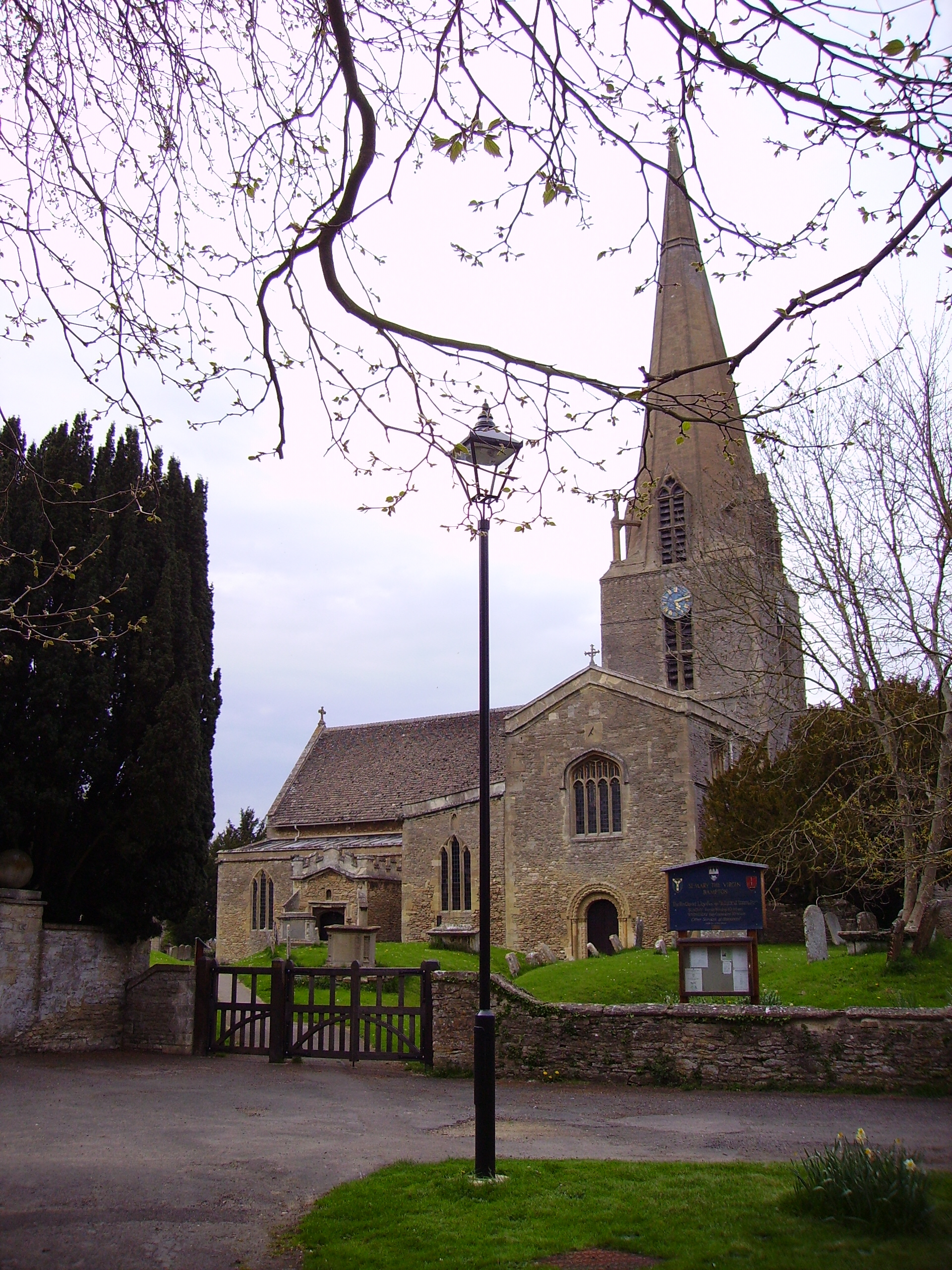 St Mary the Virgin parish church, Bampton, Oxfordshire